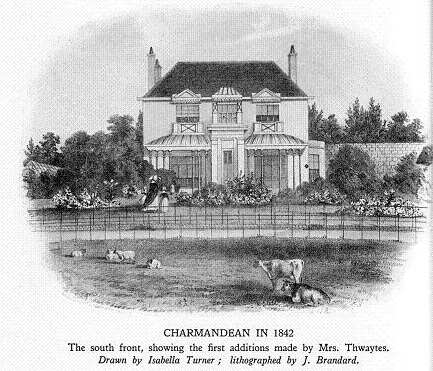 19th century drawing of Charmandean, Broadwater, Sussex, England, dated 1842, home of Ann Thwaytes between 1841 and 1866. It was built around 1806 and demolished in 1963. Mrs Thwaytes is shown walking on the lawn.